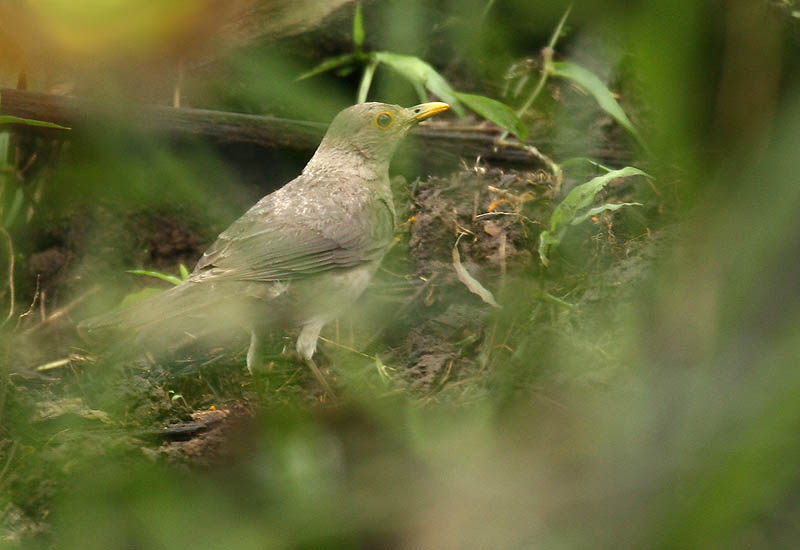 Ecuadorian Thrush (Turdus maculirostris) in Rio Silanche, NW Ecuador.